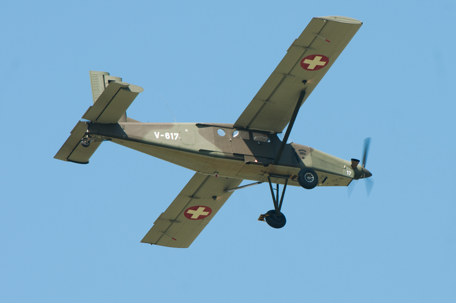 Swiss Air Force Pilatus PC-6 at Air14 Payerne